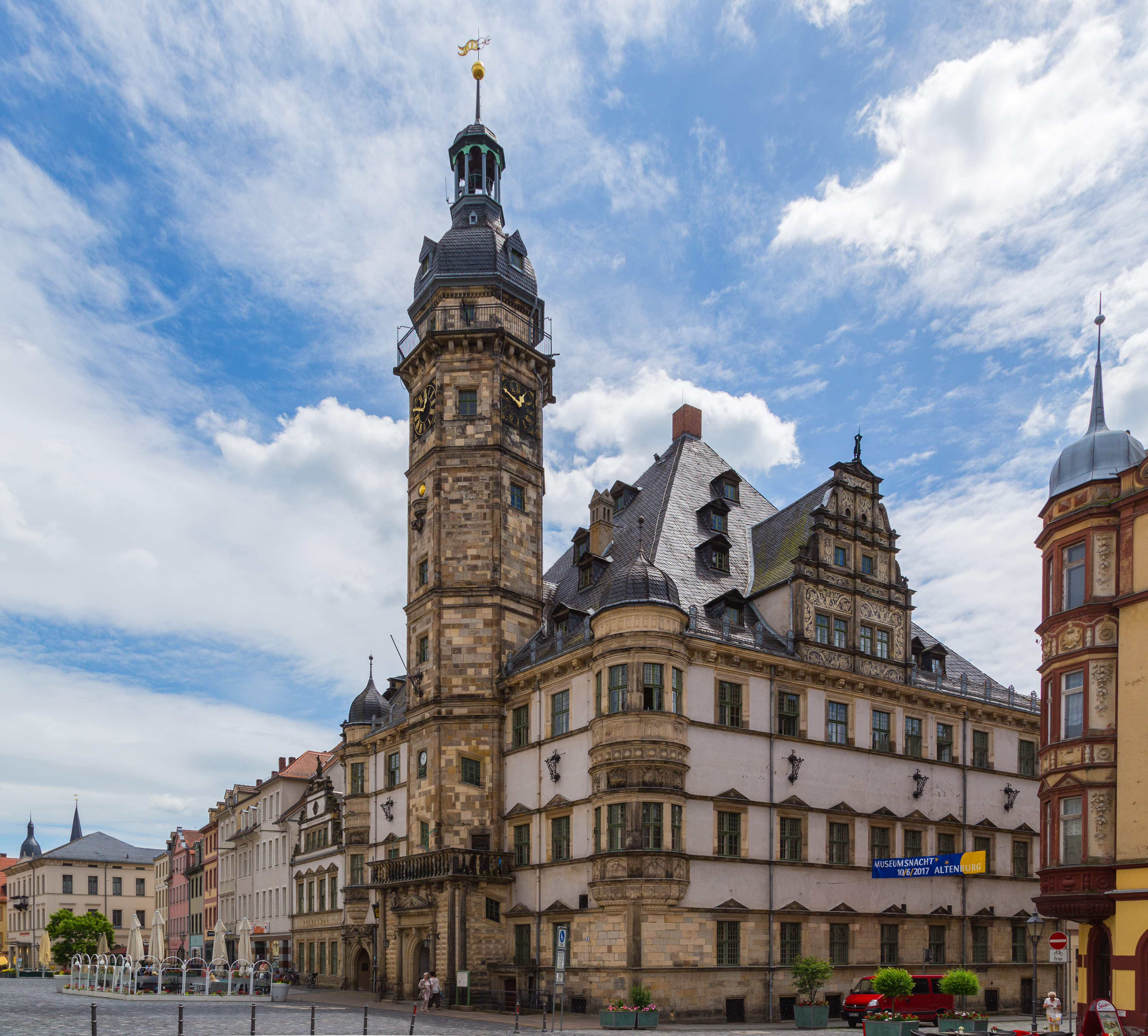 The Town Hall of Altenburg, Thuringia, Germany. This renaissance town hall is situated at the Market [Square] (Markt).